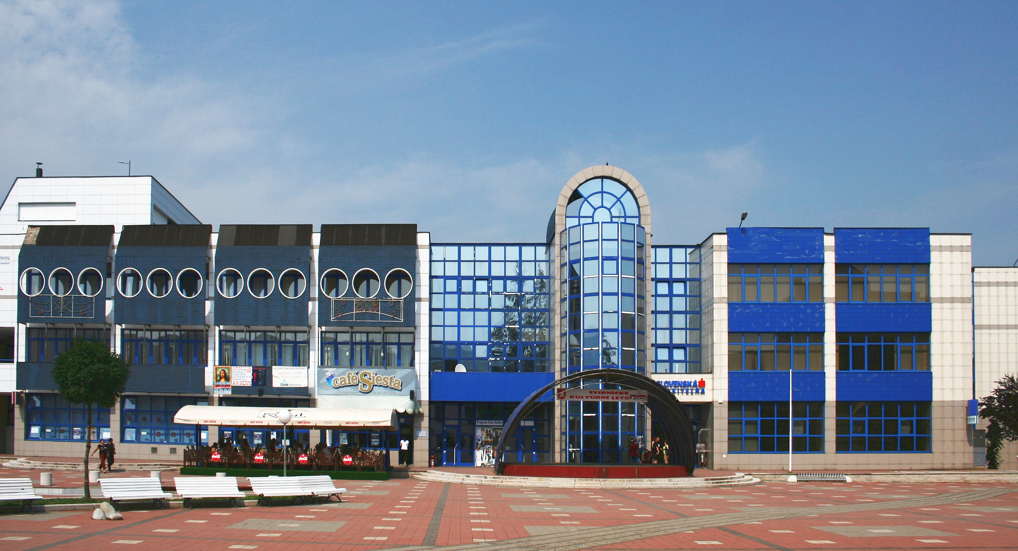 Svidník, Slovakia